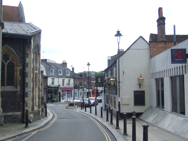 Windsor Street in the centre of Uxbridge.